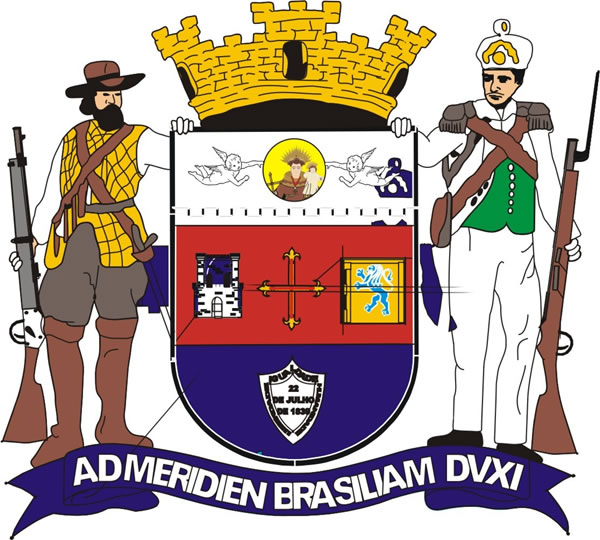 Coat of Arms of Laguna, Santa Catarina, Brazil